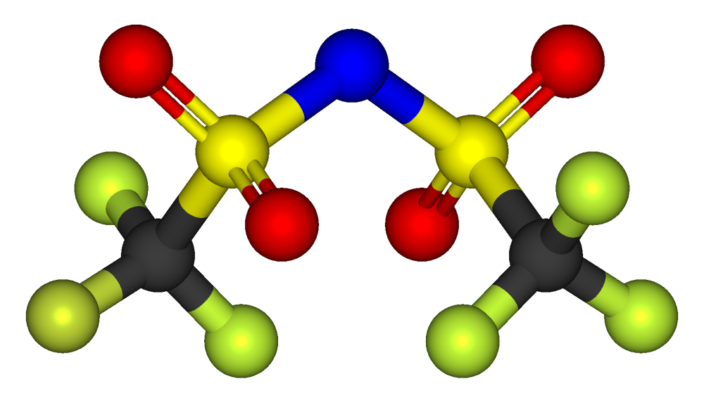 Ball-and-stick model of the bistriflimide anion. Created using Accelrys DS Visualizer Pro 1.6 and GIMP.